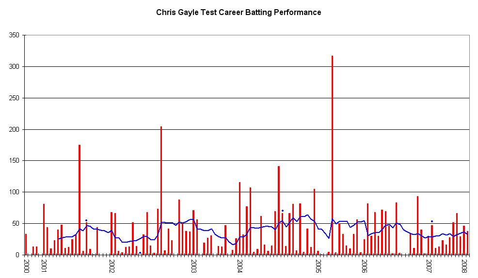 This graph details the Test Match performance of Chris Gayle. It was created by Raven4x4x. The red bars indicate the player's test match innings, while the blue line shows the average of the ten most recent innings at that point. Note that this average cannot be calculated for the first nine innings. The blue dots indicate innings in which Gayle finished not-out. This graph was generated with Microsoft Excel 2002, using data from Cricinfo [1] and Howstat [2]. The information in this chart is current as of 28 January 2008.